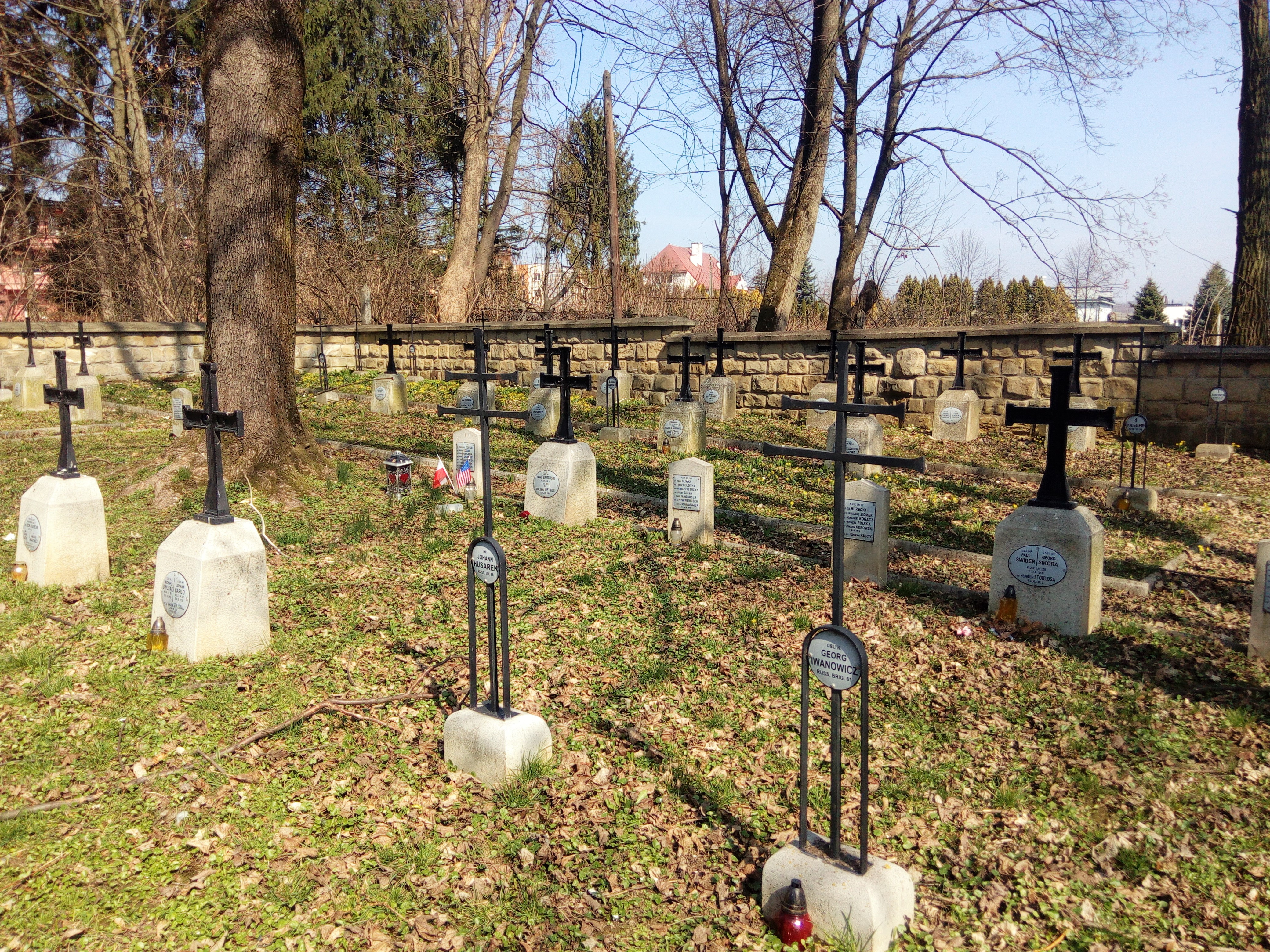 First World War cemetery No. 109 in Biecz, Galicia (southern Poland).